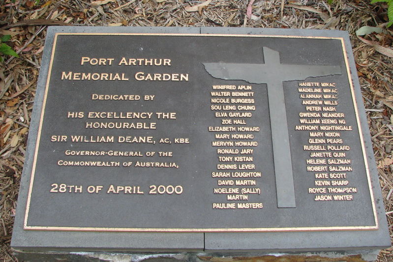 Commemorative plaque to those who lost their lives in the "Port Arthur Massacre"